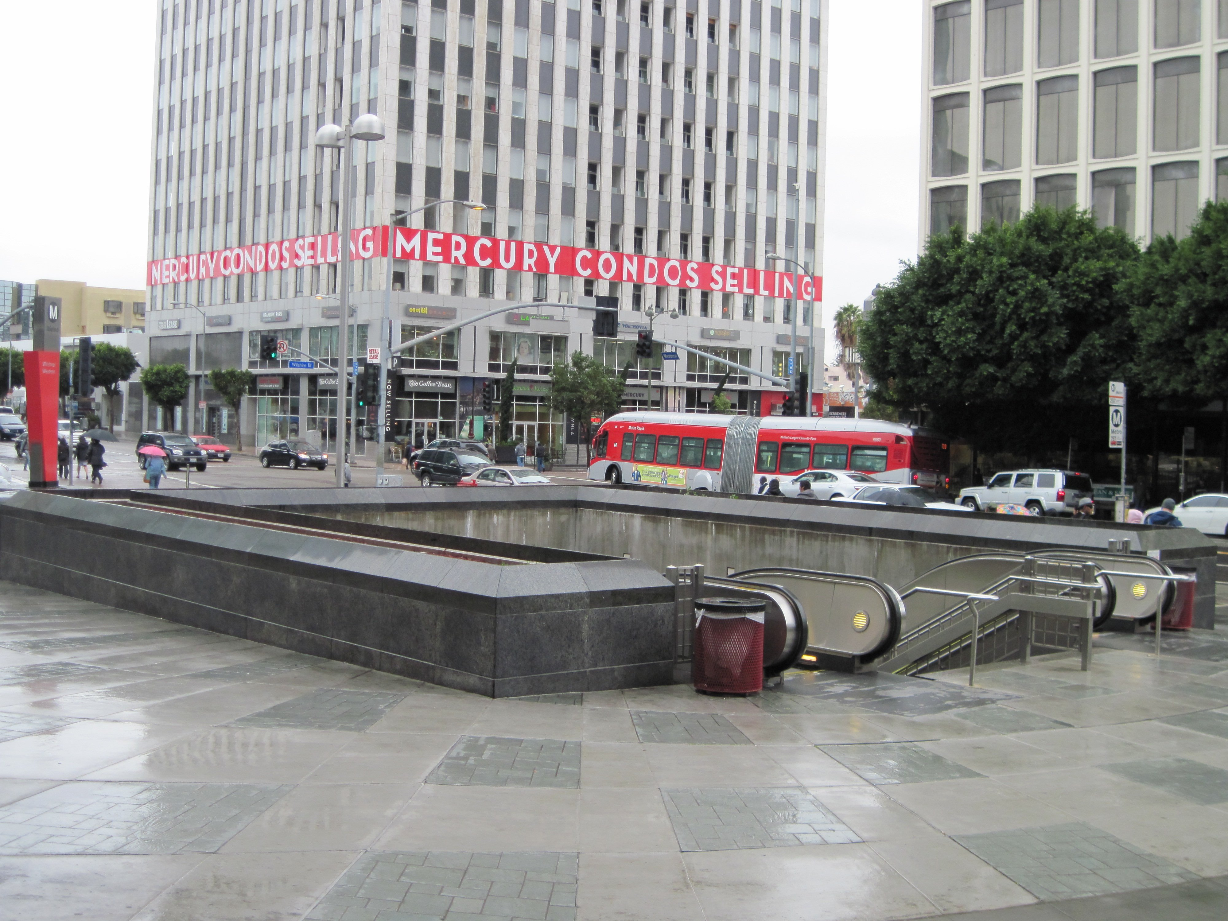 The entrance to the Los Angeles County Metropolitan Transportation Authority's Wilshire/Western station, western terminus of the Metro Purple Line in Los Angeles, California, USA.